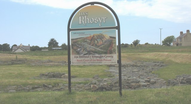 The excavated foundations of the Royal Llys at Rhosyr The information board provides an artist impression of the medieval court of the Princes of Gwynedd.